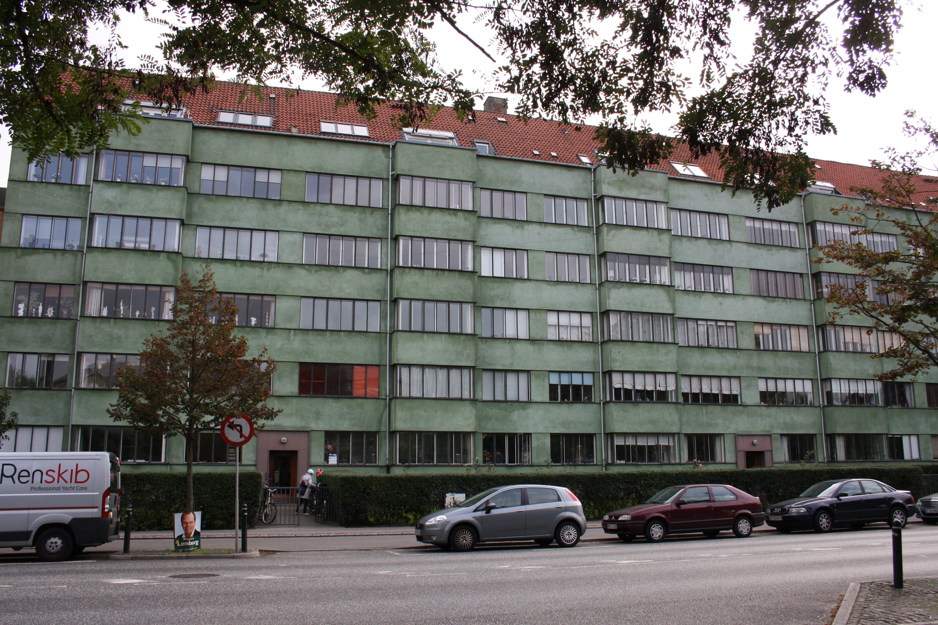 Det grønne Funkishus (The green Functionalism house), an apartment building from 1932, Frederiksberg Copenhagen Denmark.